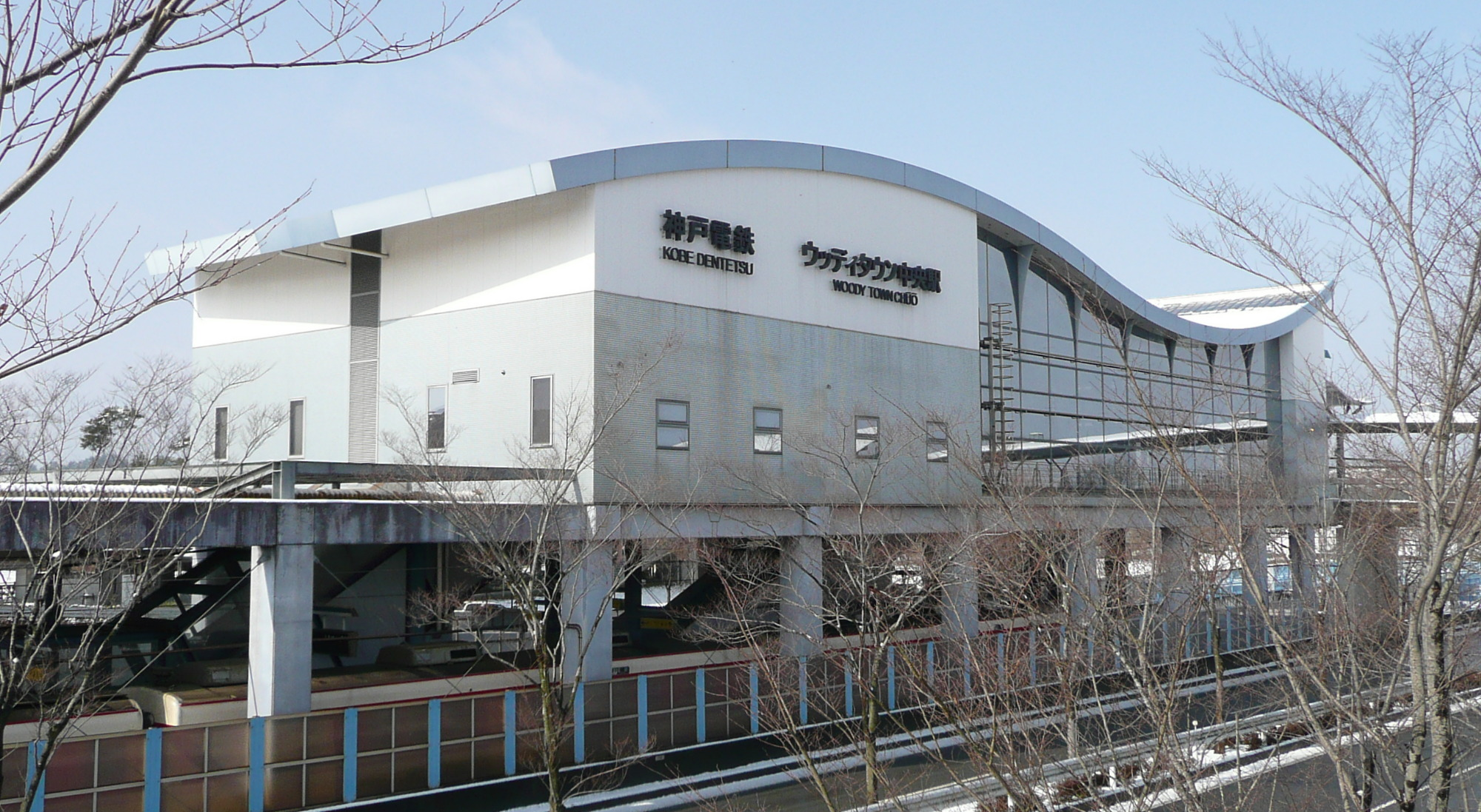 Kobe Electric Railway Woody Town Chuo Station